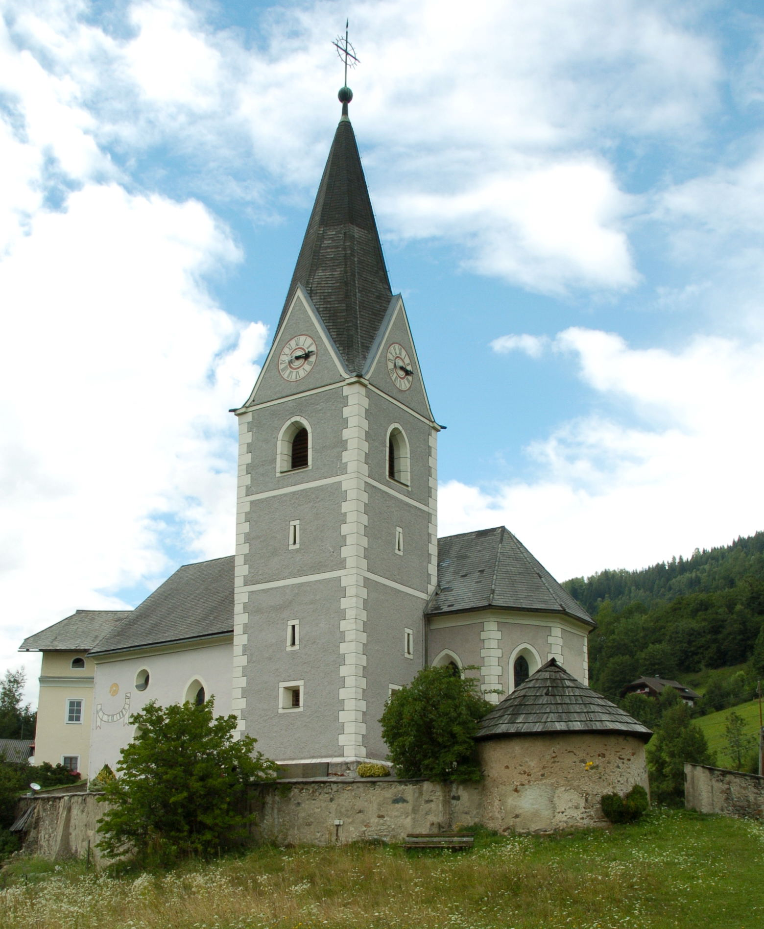 Parish church Saint Peter and cemetery in Tweng, municipality Radenthein, district Spittal an der Drau, Carinthia, Austria, EU